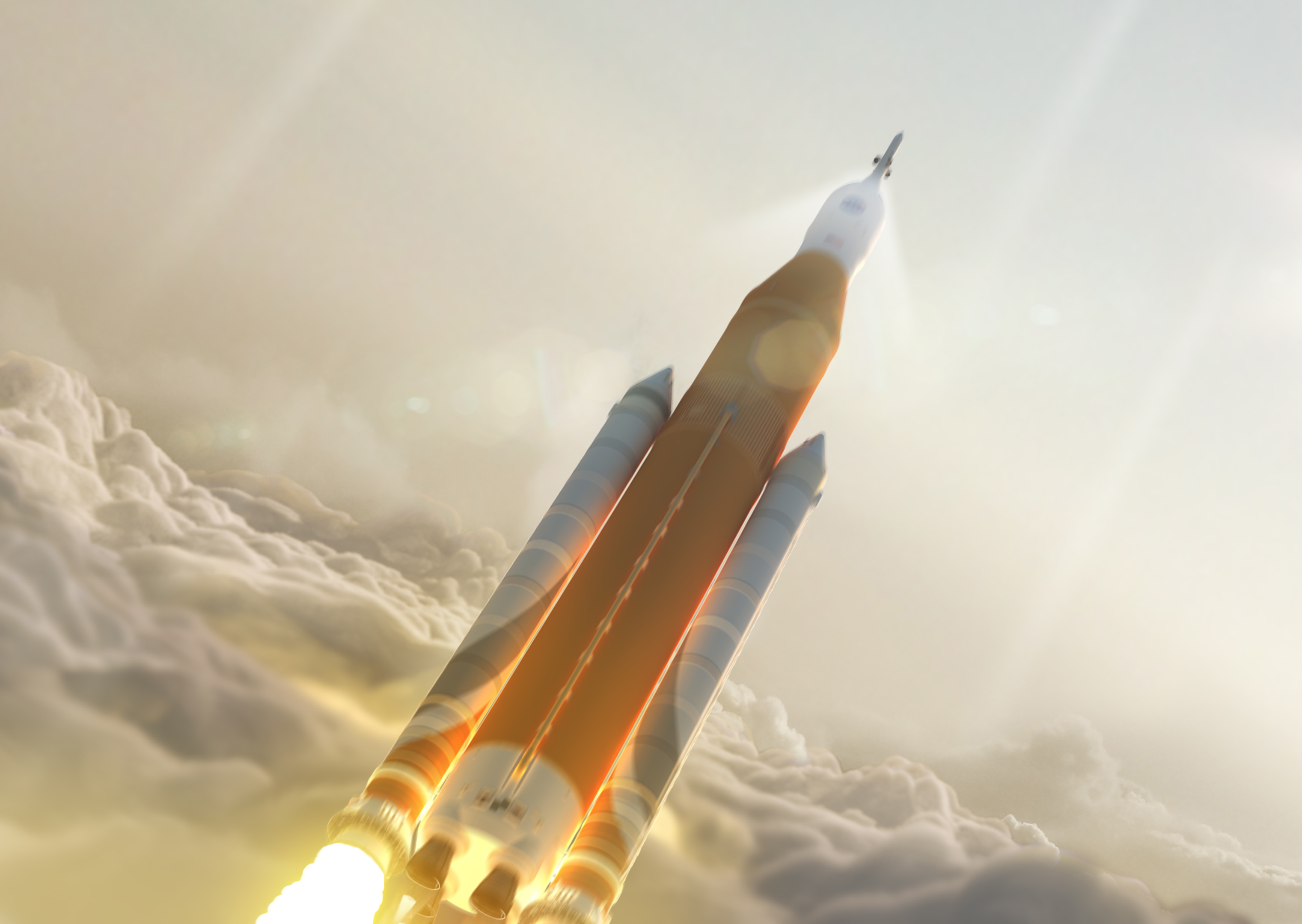 An artist's rendition of NASA's Space Launch System rocket in its latest configuration following its Critical Design Review. This image has been cropped from its original source.